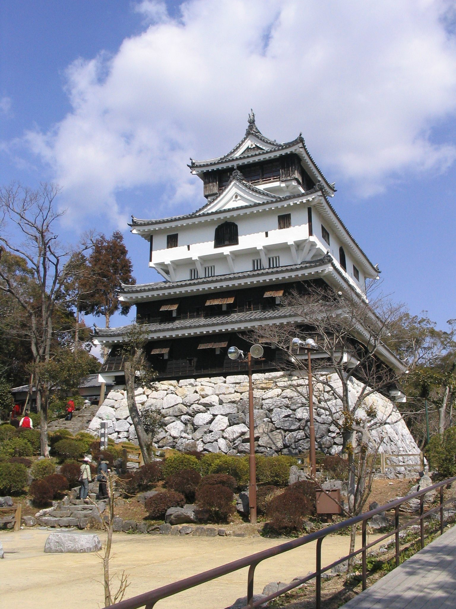 An image of reconstructed Iwakuni castle